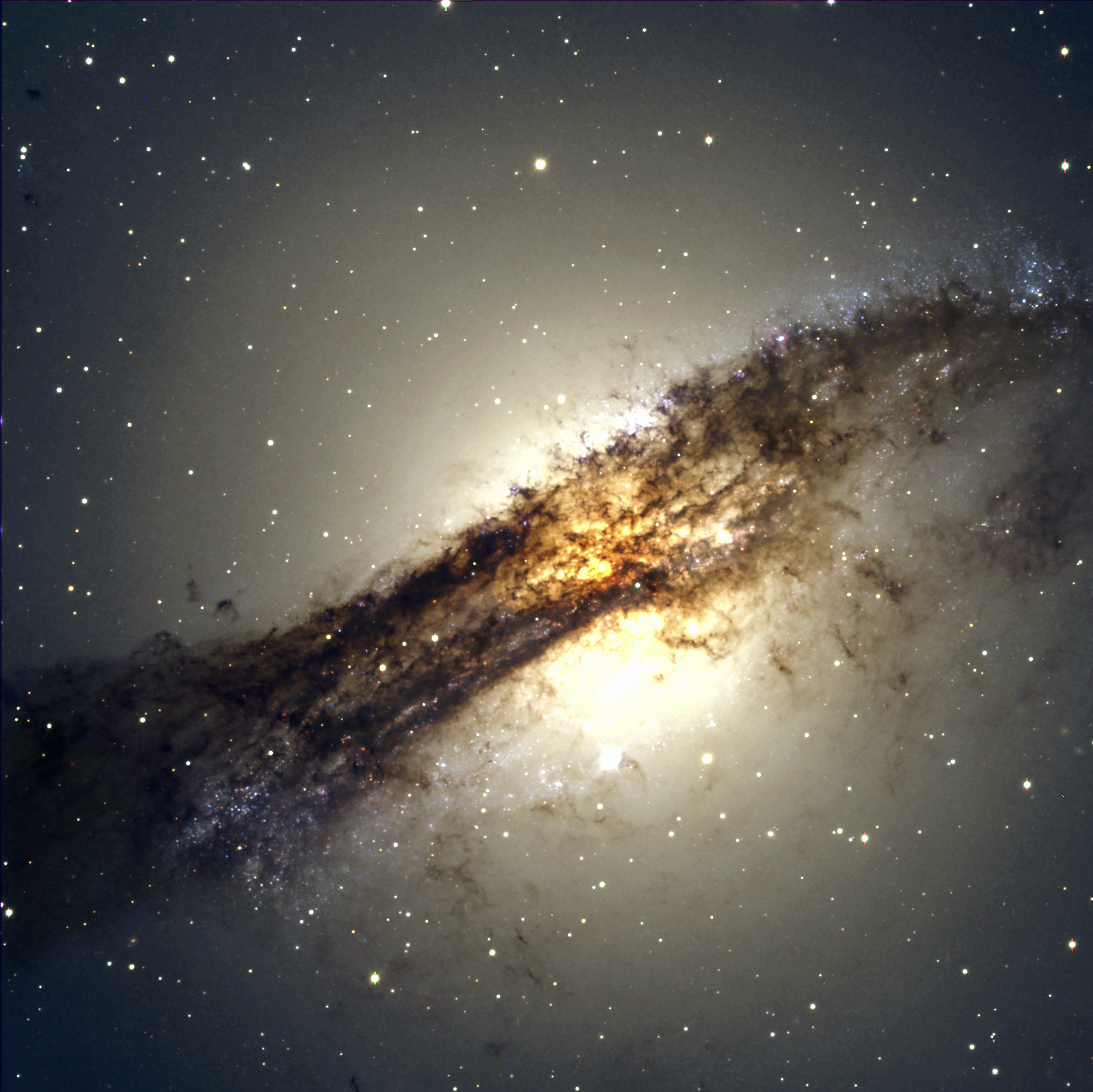 This image of Centaurus A, also known as NGC 5128, is an example of how frontier science can be combined with aesthetic aspects. This galaxy is a most interesting object and is being investigated by means of observations in all spectral regions, from radio via infrared and optical wavelengths to X- and gamma-rays. It is one of the most extensively studied objects in the southern sky.